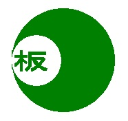 Itano Tokushima chapter